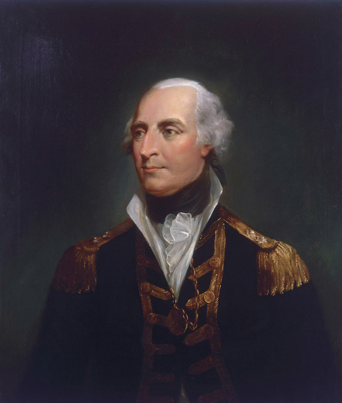 Vice-Admiral Sir Roger Curtis (1746-1816) oil on canvas 76 x 58.5 cm